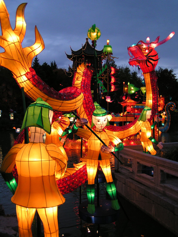 Botanical garden, Montreal, Quebec, Canada. Mid-autumn festival.